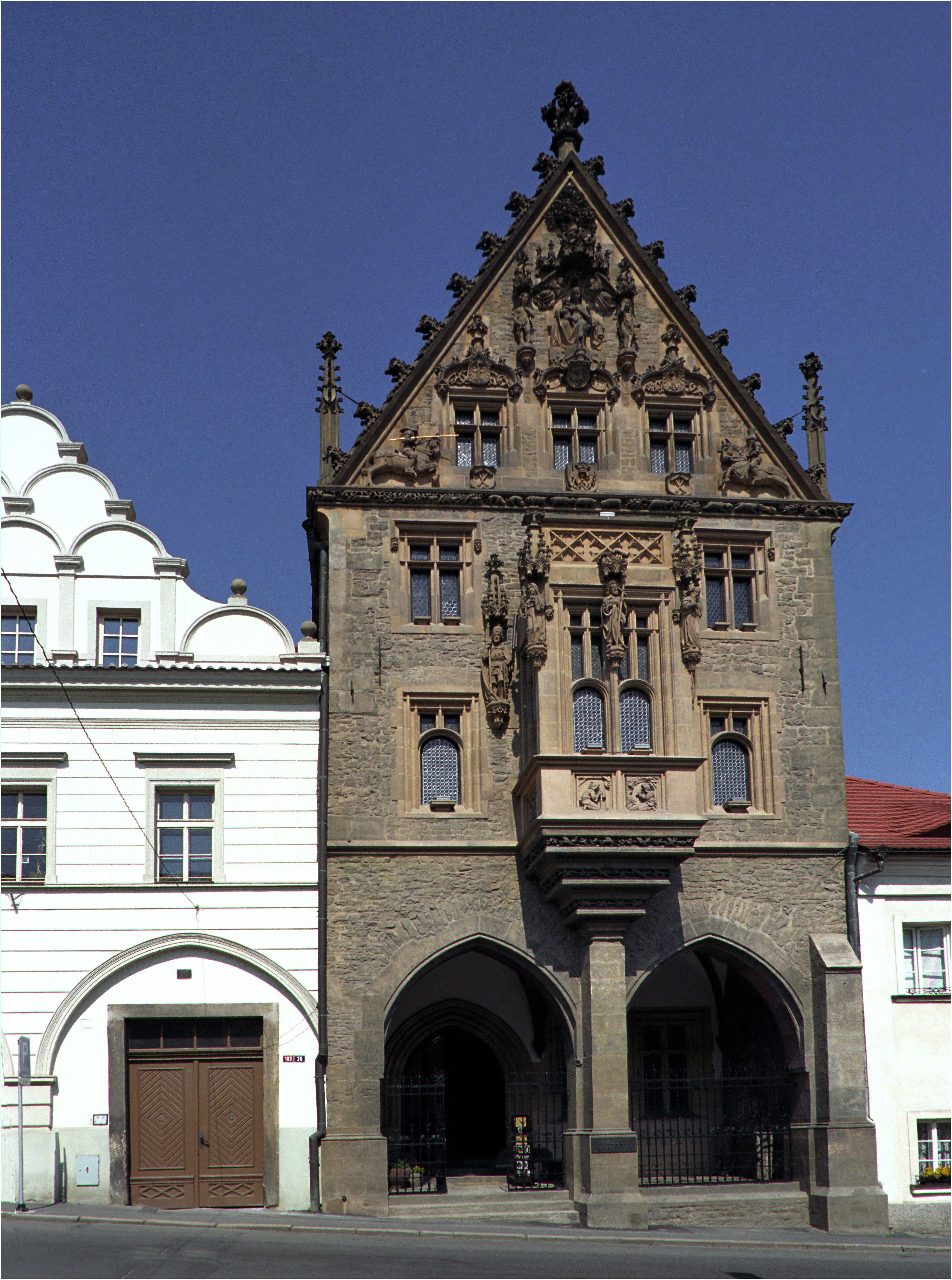 Kutná Hora, The Gothic Stone House